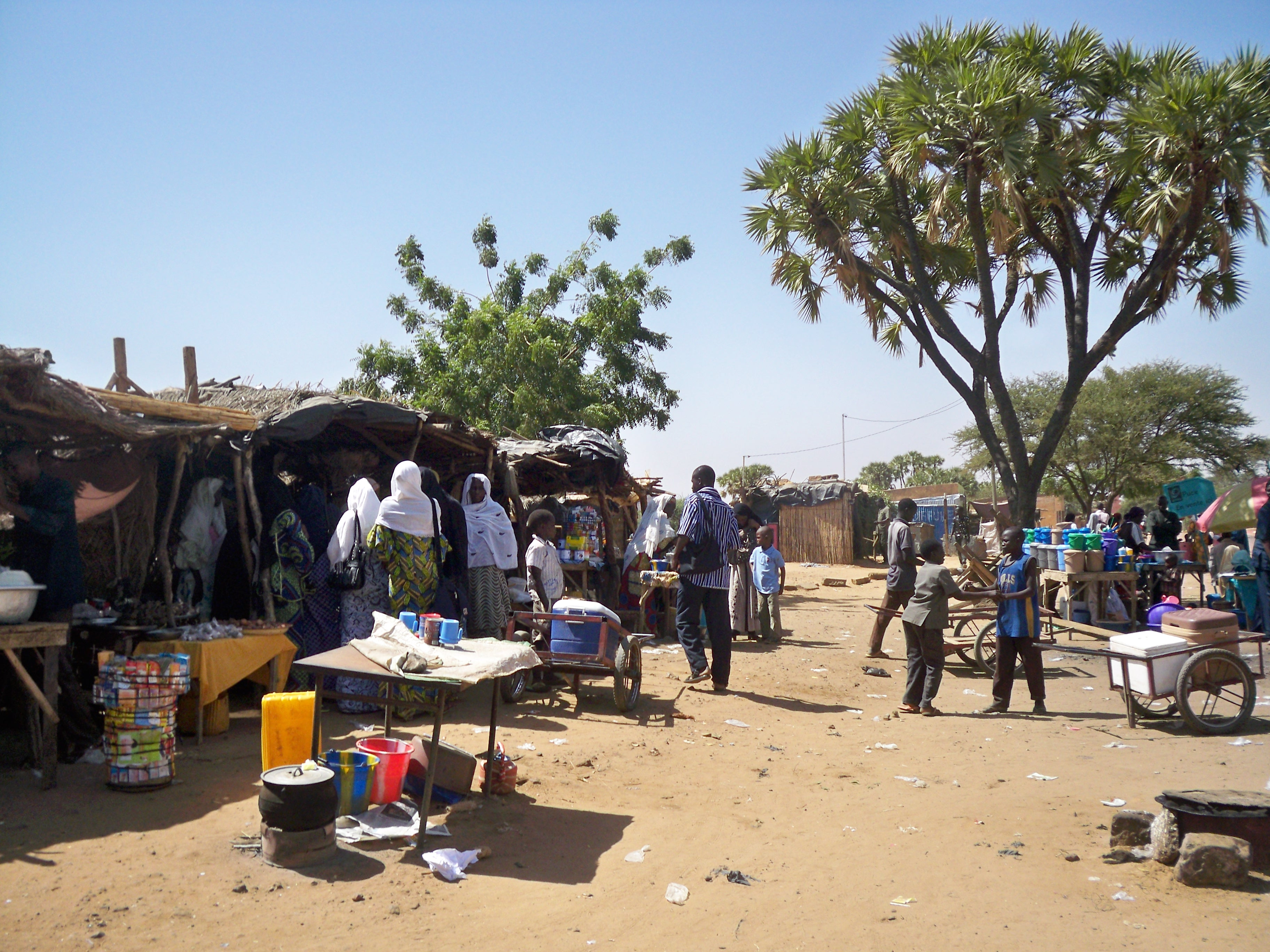 'Lamordé' Street Market in Niamey, Niger